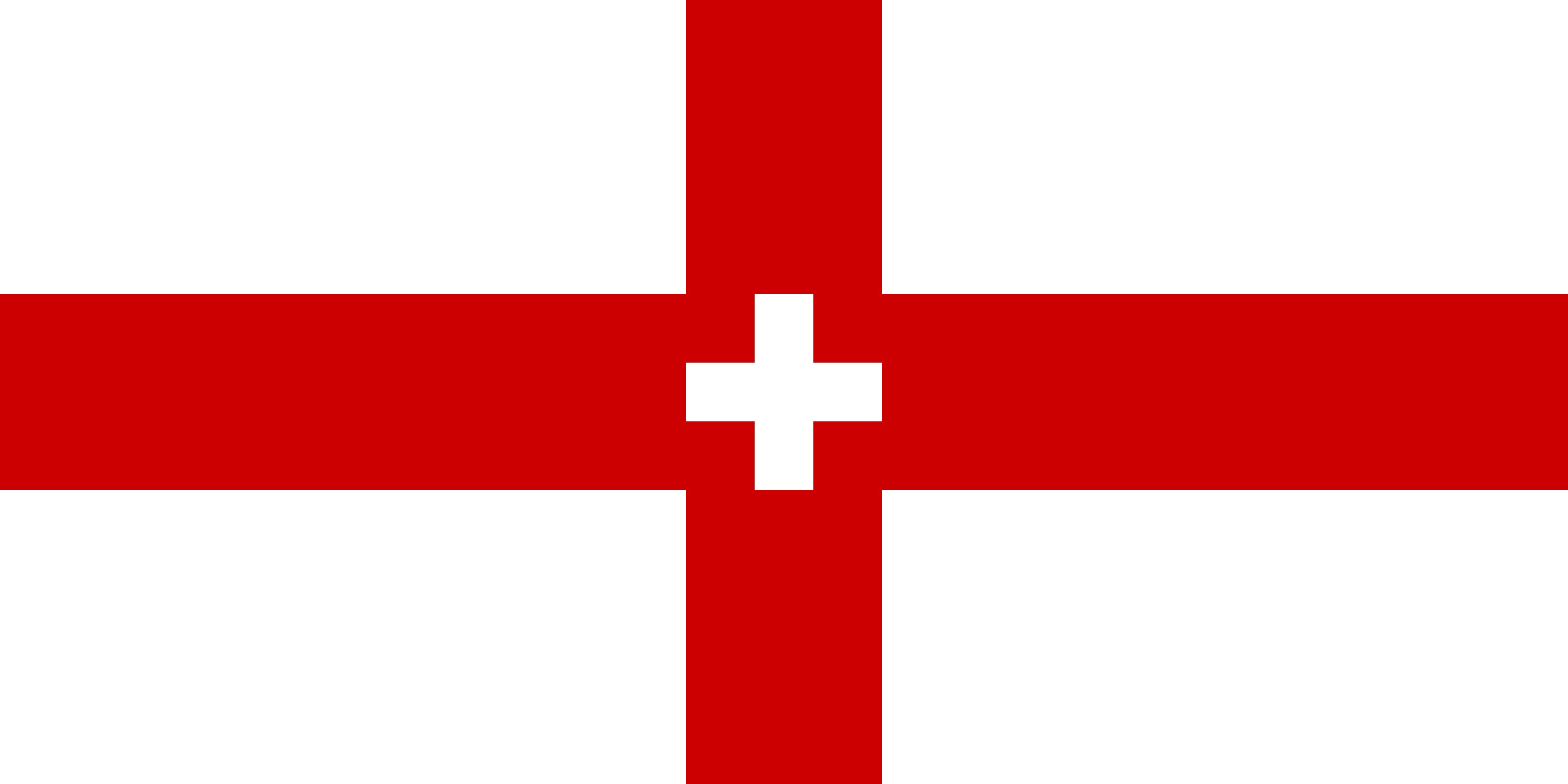 Novi Ligure flag.